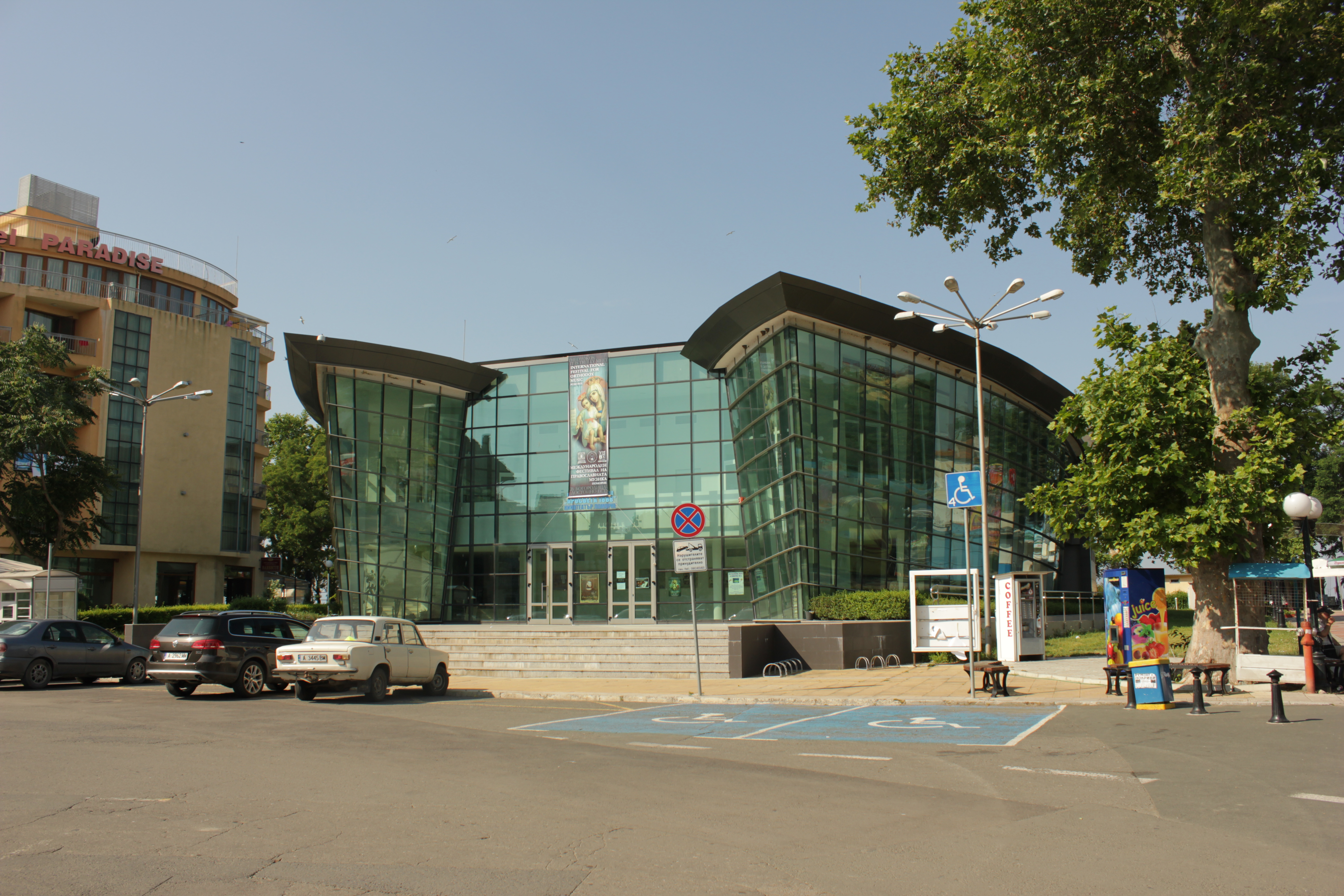 Pomorie cinema center of Culture club (chitalishte) Education (Prosaweta) 1888 in Pomorie, Bulgaria